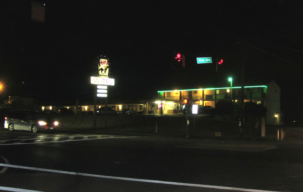 Turf Motel Laurel Maryland